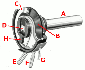 Drawing of a potentiometer (variable resistor) with the case cut away, showing internal parts, from an advertisement in an electronics magazine. The labeled parts are A. Shaft B. Stationary carbon composition resistance element C. Springy phosphor bronze wiper that rides along resistance element D. Shaft attached to wiper E, G Terminals connected to ends of resistance element F. Terminal connected to wiper H. Cam that operates on-off switch, if one is included in potentiometer Alterations to image: cloned out advertising copy, added arrows and labels